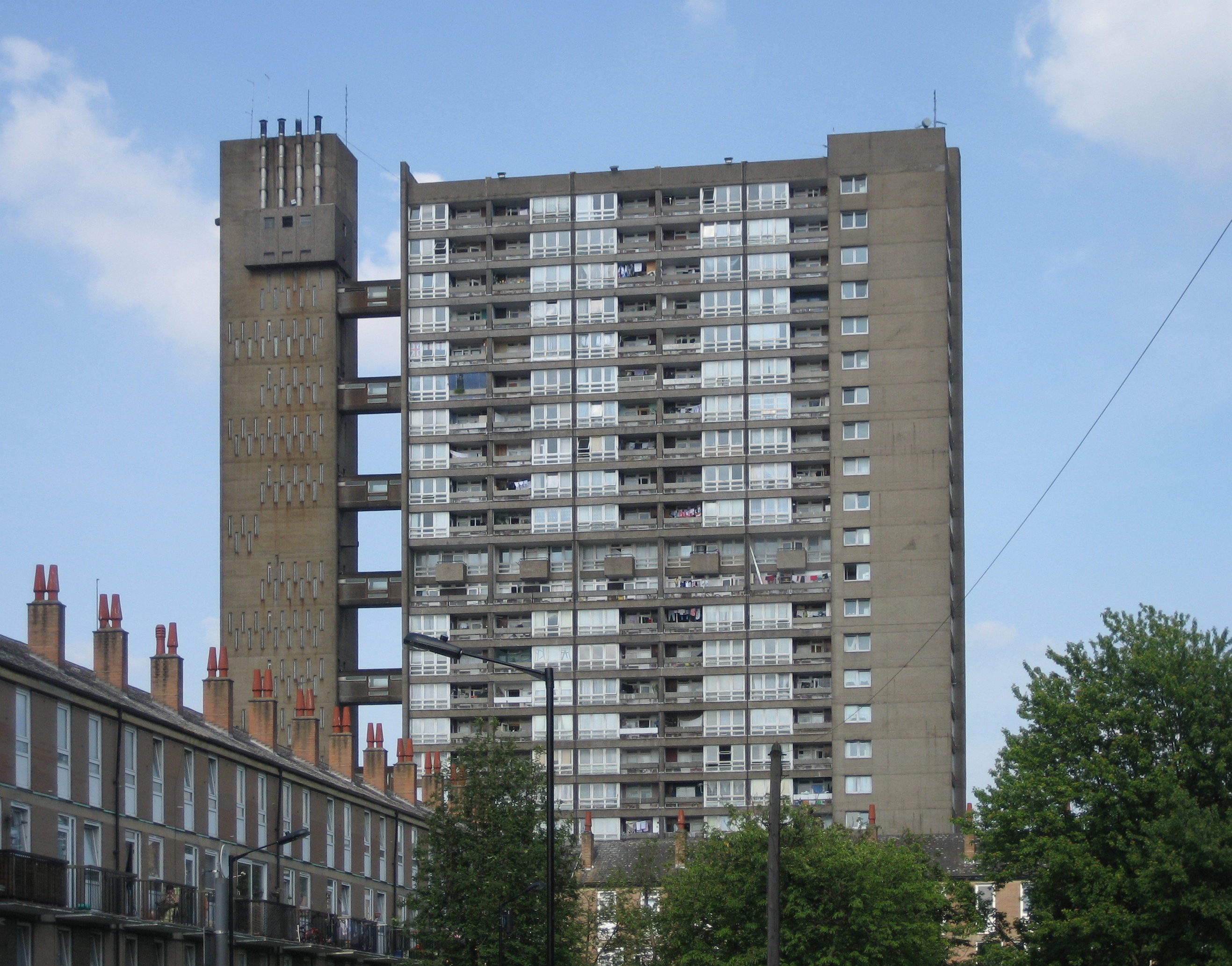 Balfron Tower, London